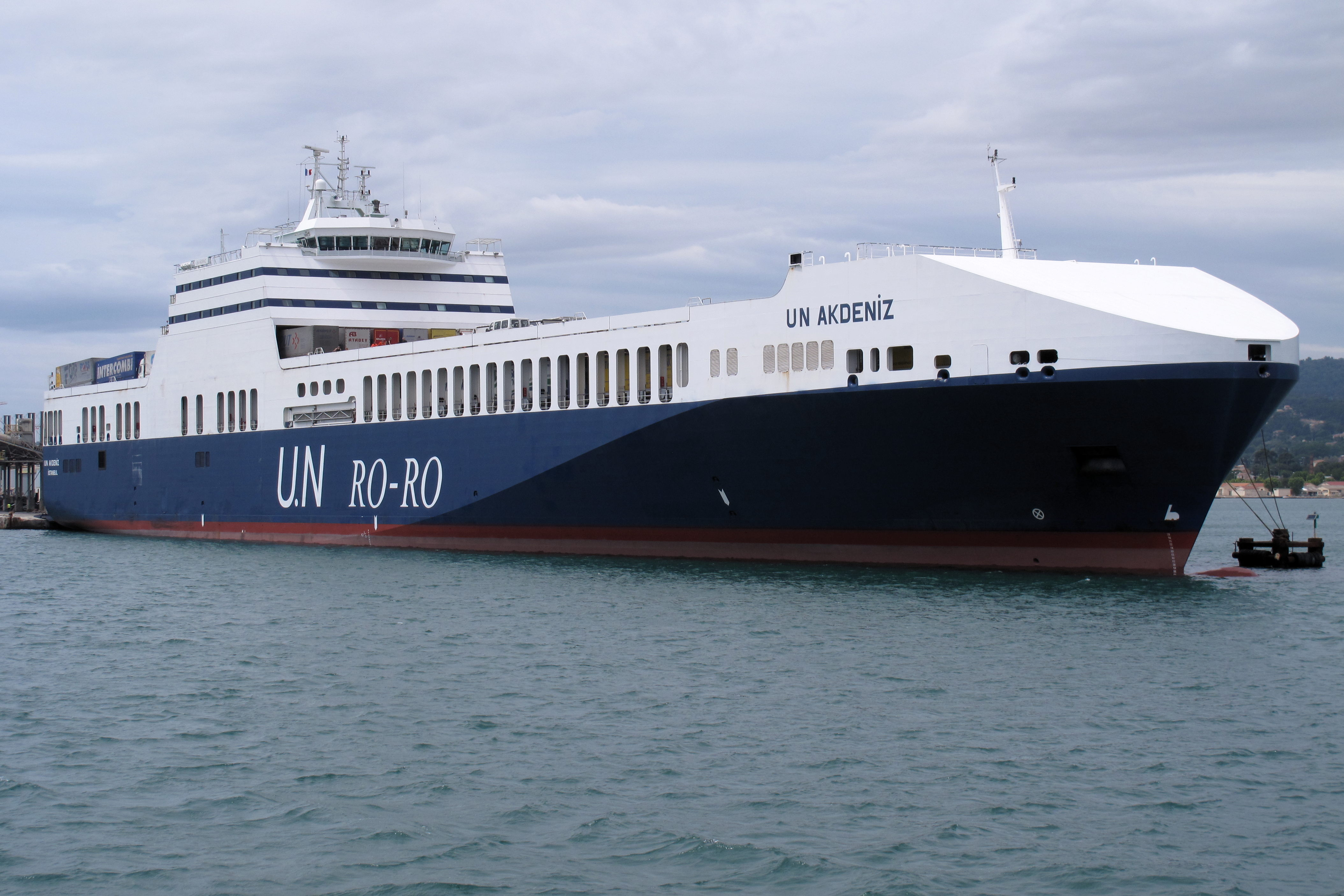 Ferry UN Akdeniz in Toulon harbour.